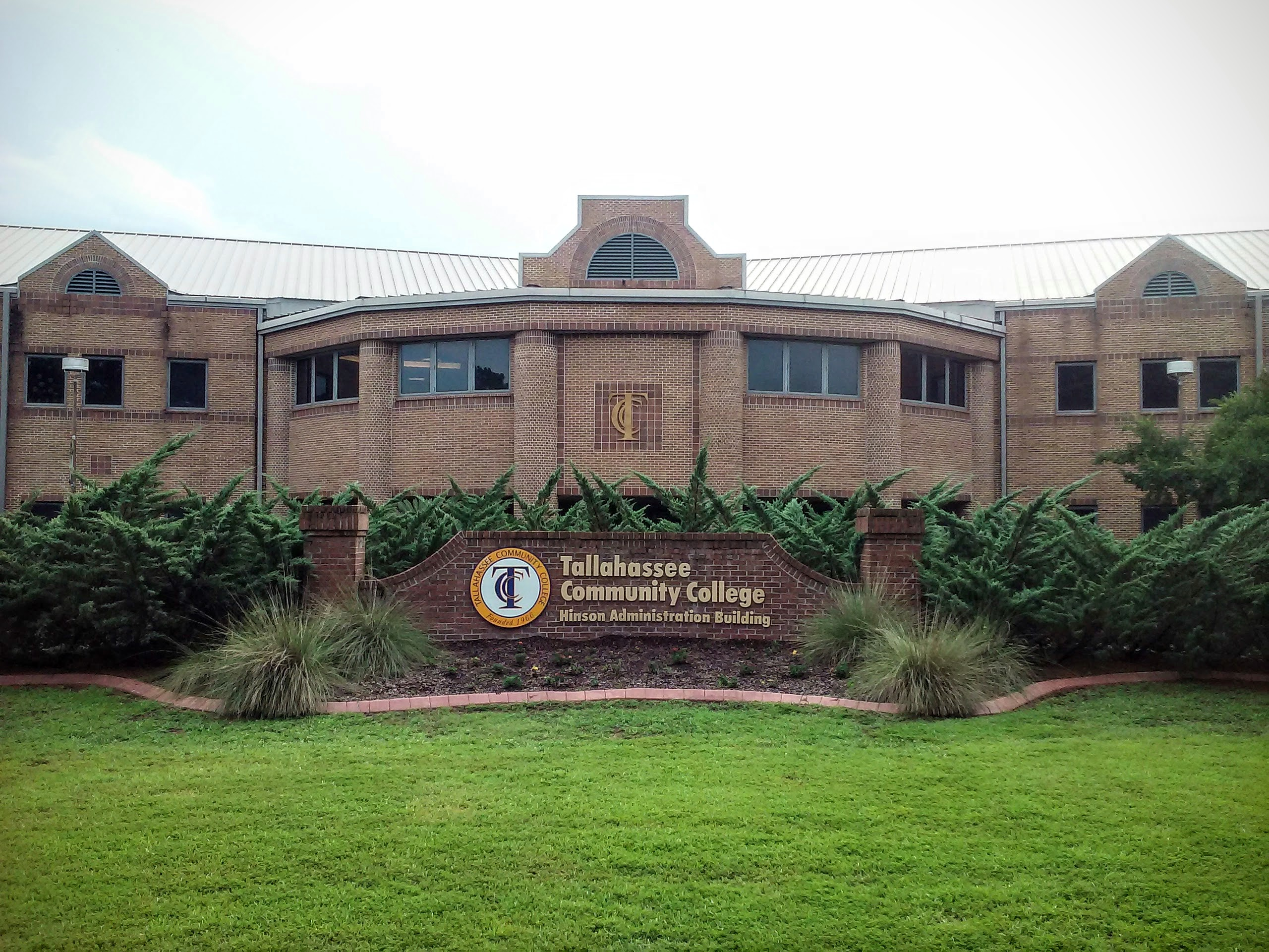 This is the entrance to Tallahassee Community College and also the administration building.